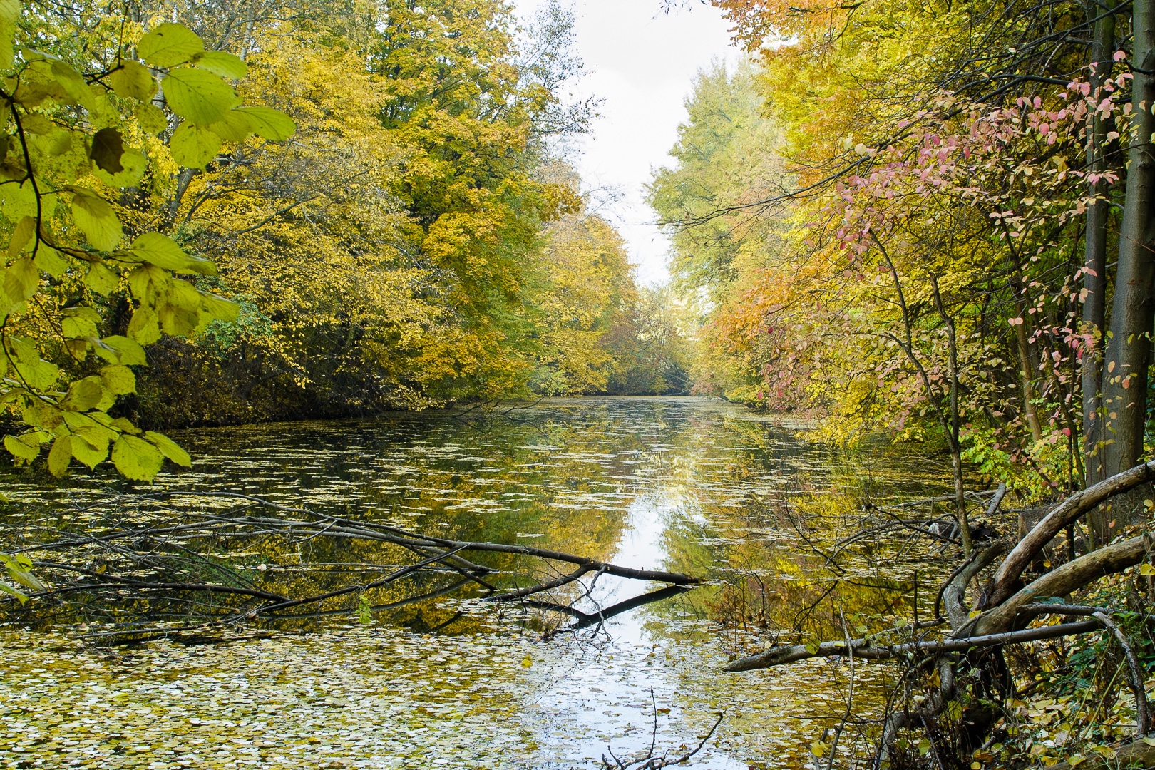 Morysin nature reserve - the Sobieski Canal seen from the park, dead wood. Wilanów, Warsaw, Poland.